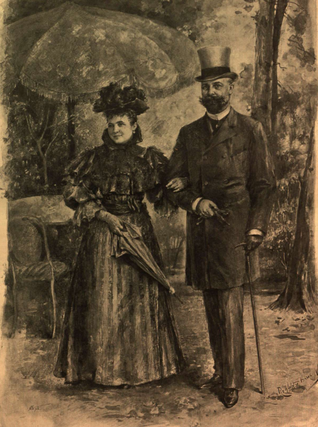 Bánffy Dezső with his wife